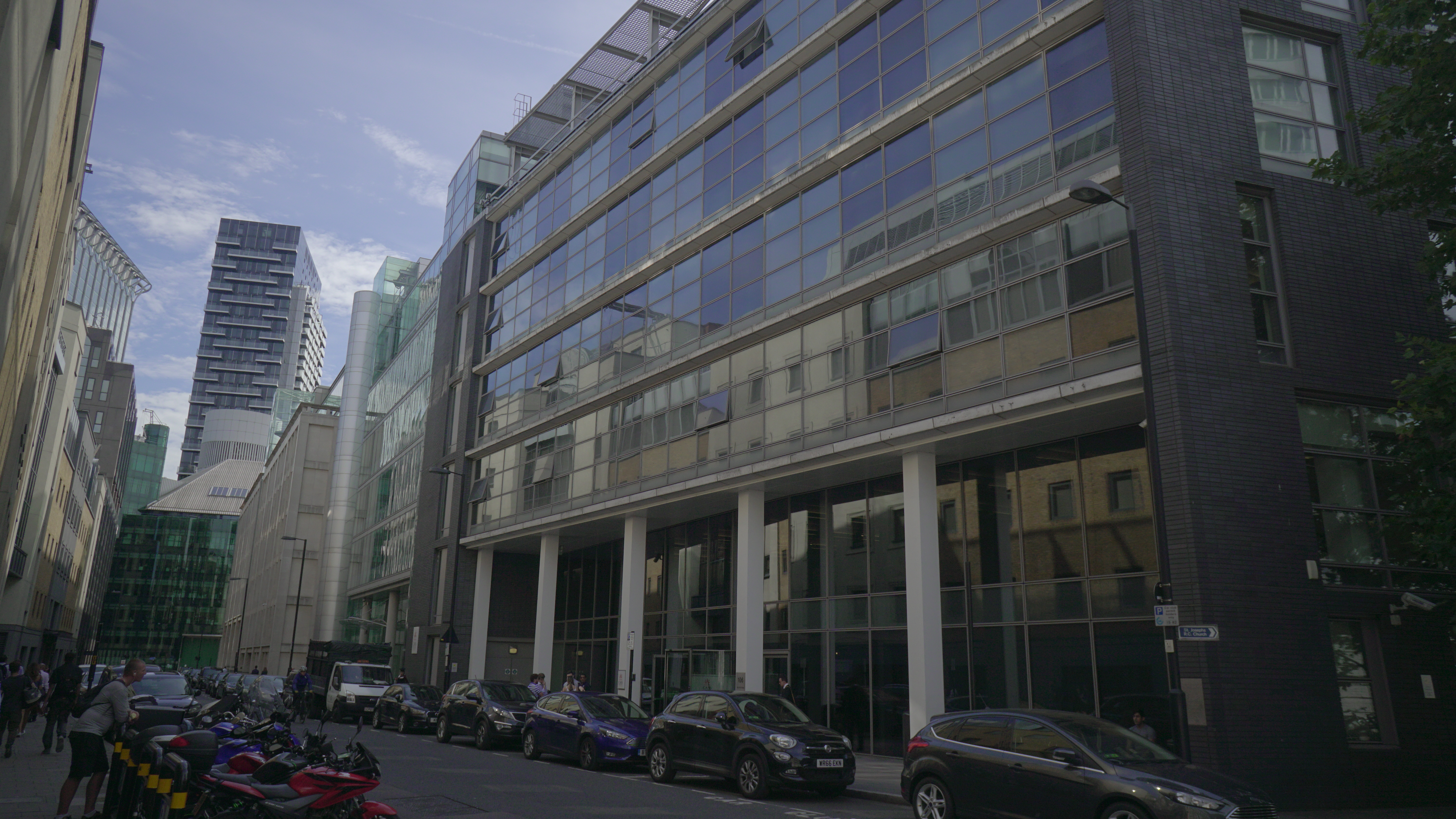 Cass Business School